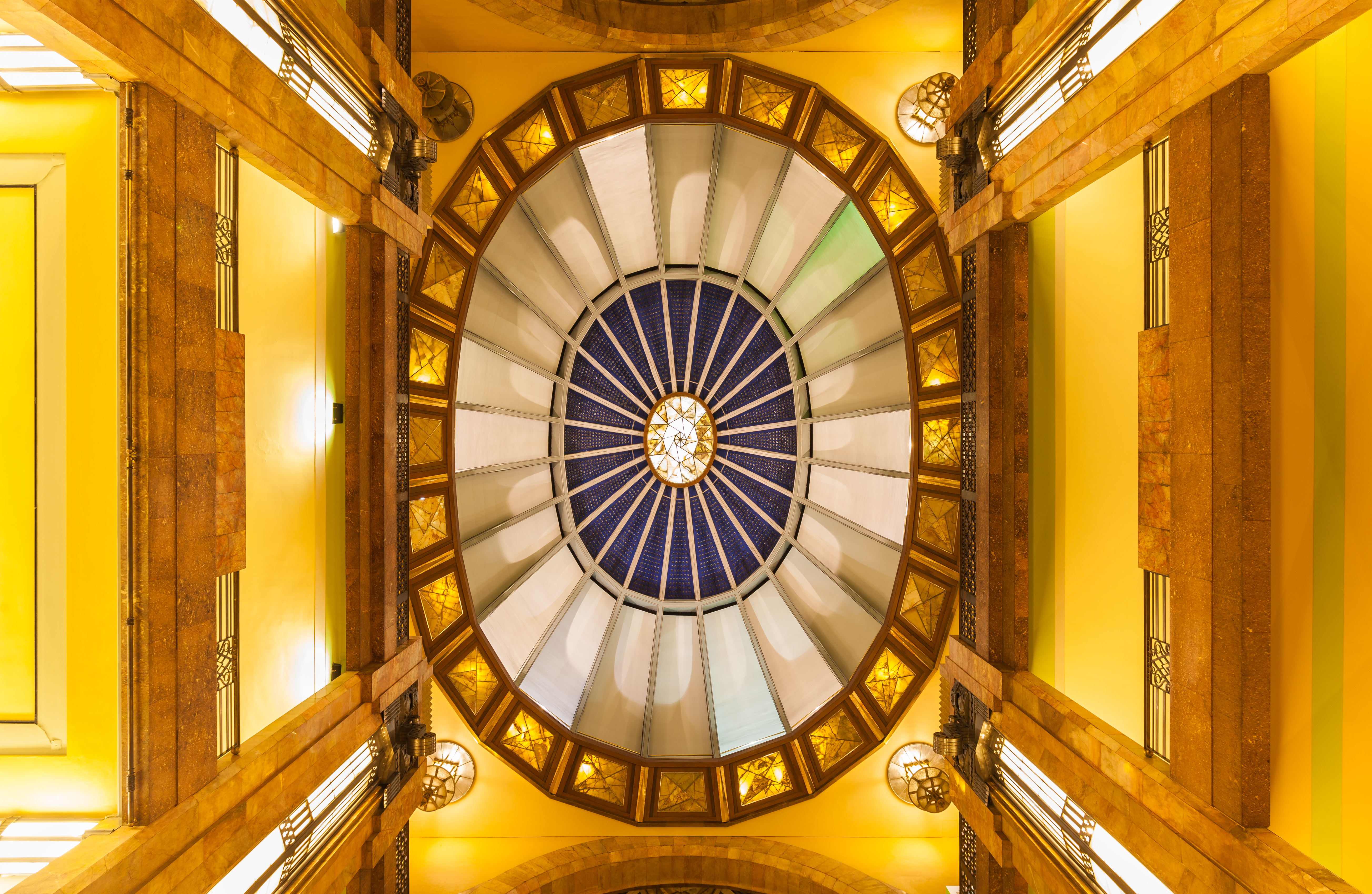 Interior view of the dome of the Palacio de Bellas Artes (Palace of Fine Arts) of Mexico City. The building, located in the historic center of the mexican capital, required 30 years (1904-1934) to be constructed and is the most important cultural center in the country of Mexico.